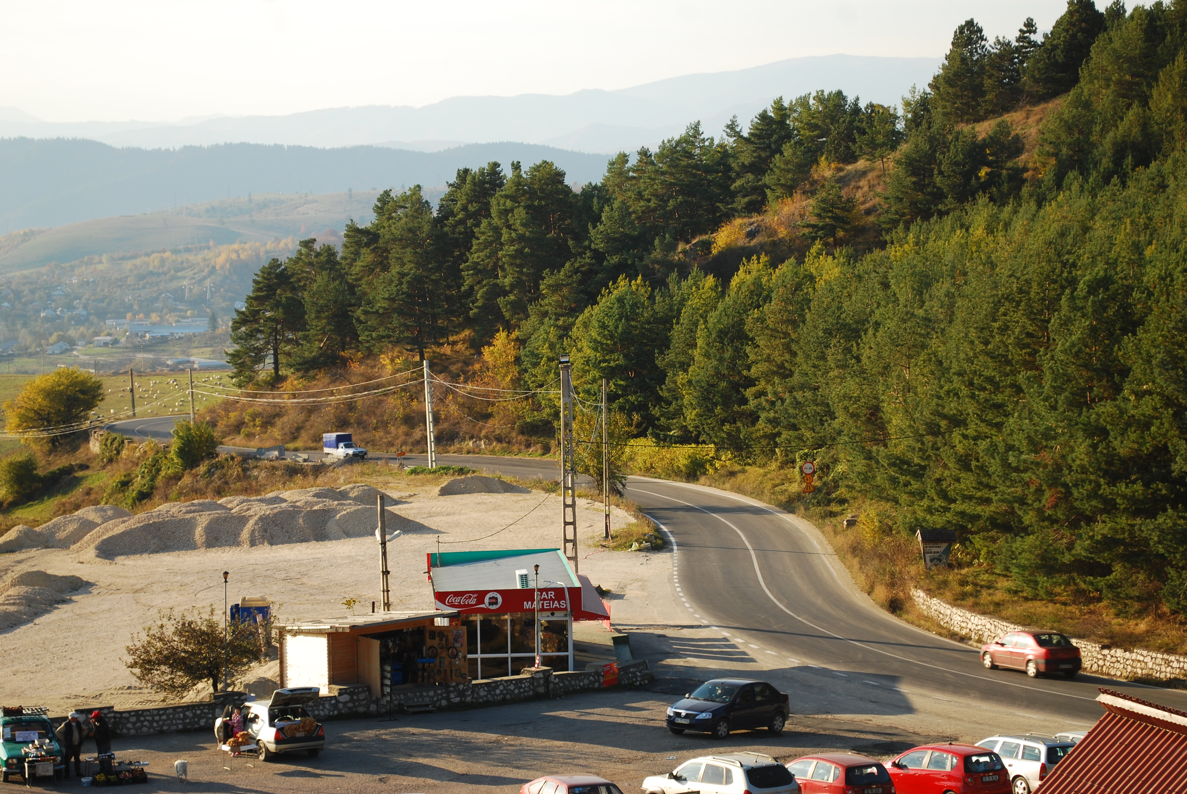 DN73 in Romania seen from Mateiaş mausoleum